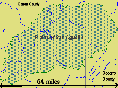 Map of the Plains of St Augustine (Plains of San Agustin), New Mexico, showing internal drainage